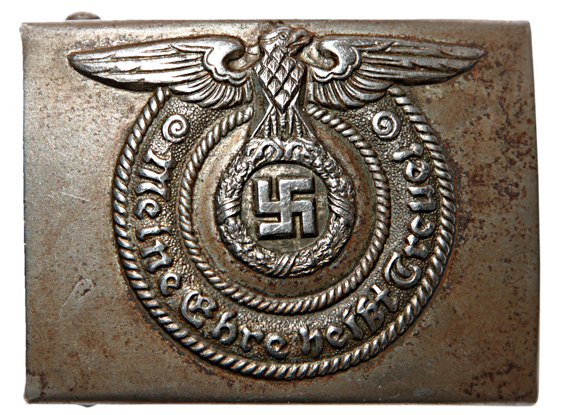 Buckle "Meine Ehre heißt Treue", SS. Front and rear view.